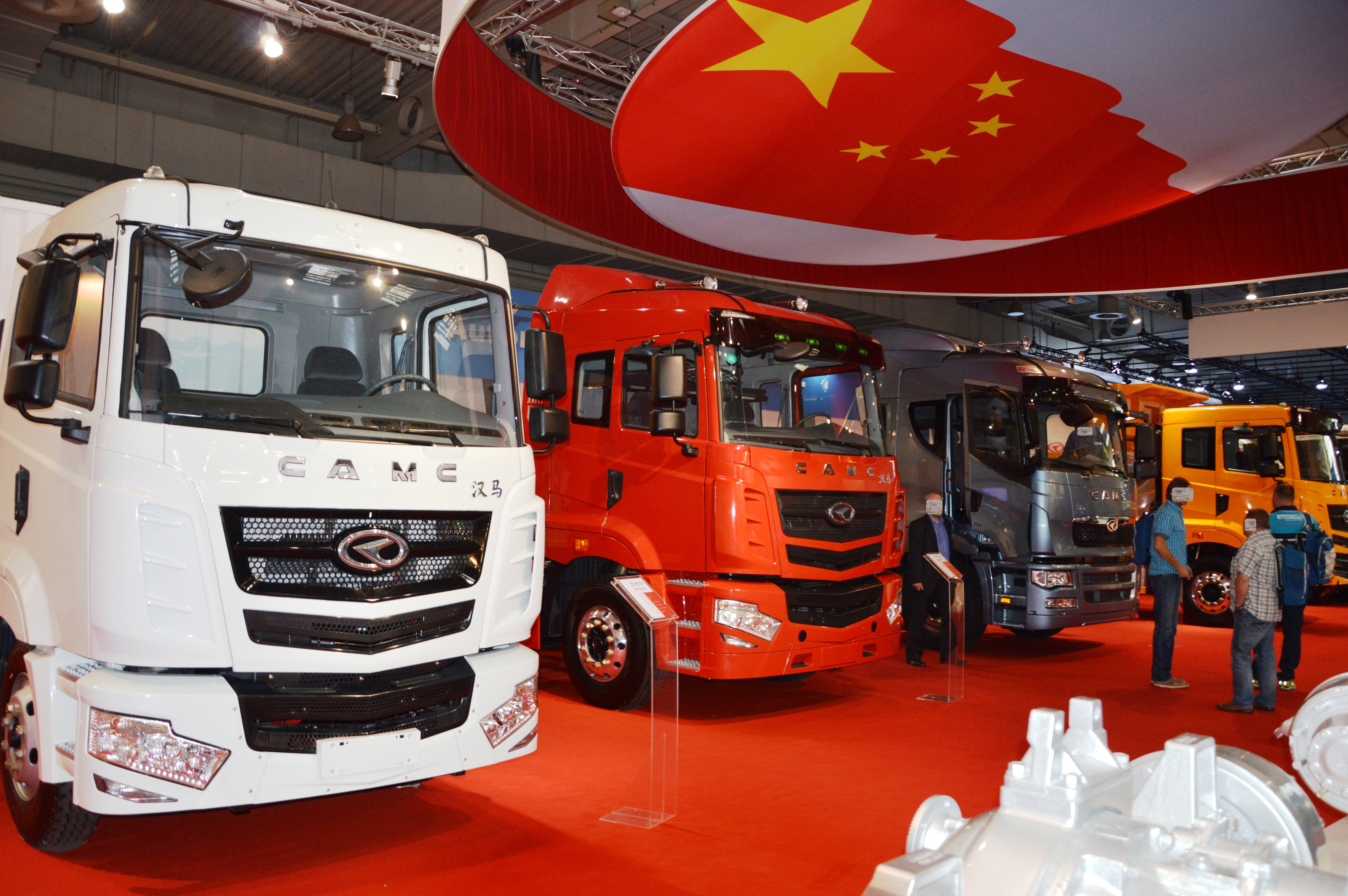 CAMC trucks, photo taken at exhibition IAA 2014 in Hanover, Germany